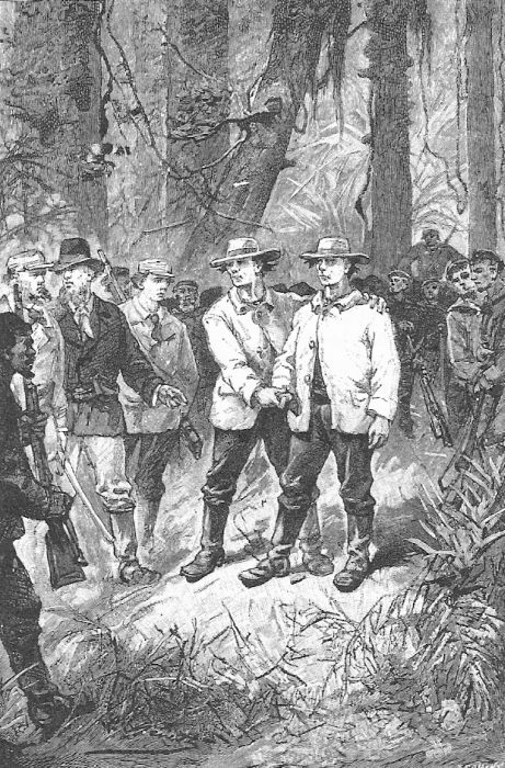 An ilustration from the novel "North Against South" (or "Texar's Revenge, or, North Against South") by Jules Verne painted by Léon Benett.